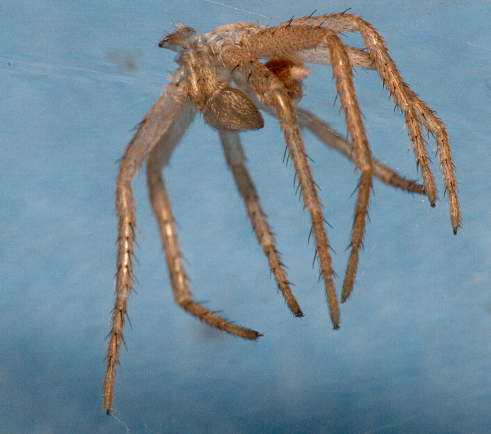 Exuvia from the last molt of a male Philodromus aureolus from Cologne, Germany.